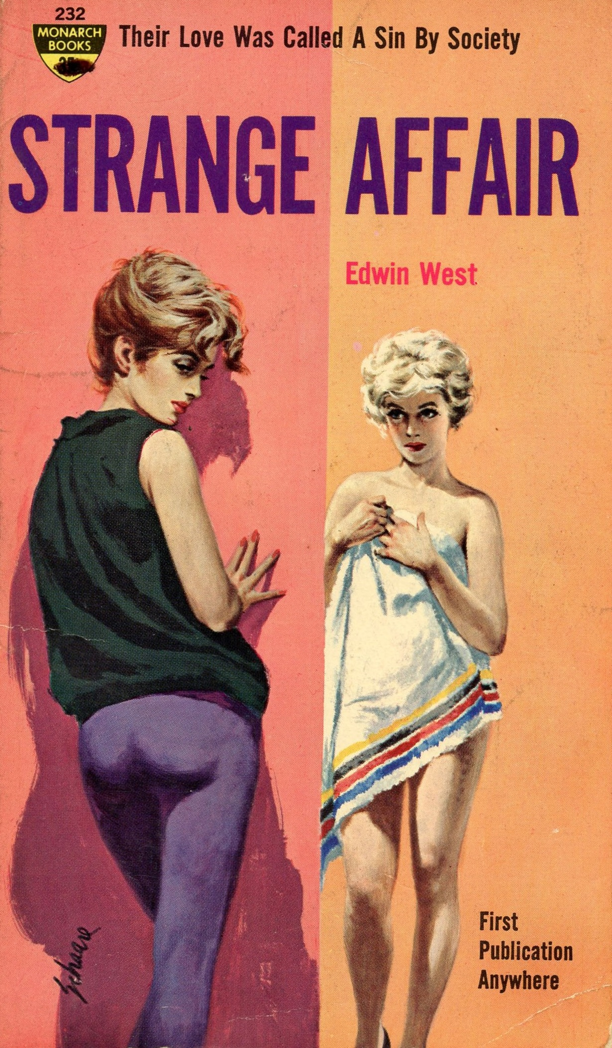 Cover of "Strange Affair" by Edwin West (pseudonym of Donald E. Westlake). Illustration by Harry Schaare.